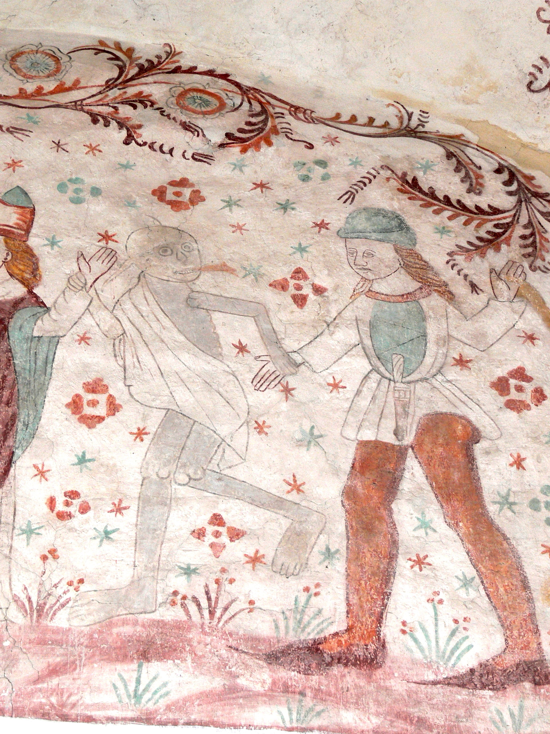 Nørre Alslev church.Frescos of the Master of Elmelunde ( 14th century ): Danse Macabre - citizen.